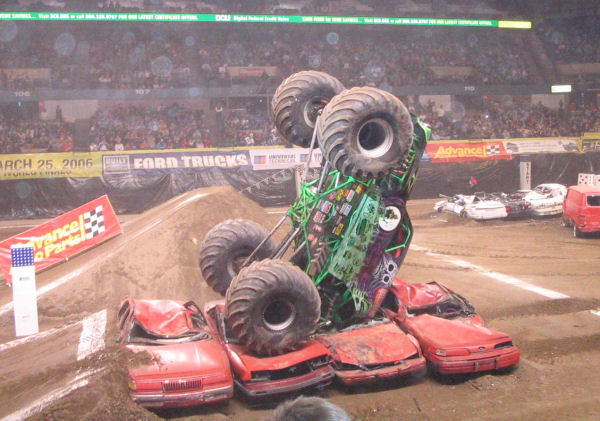 Grave Digger XIV is stuck upright at the DCU Center in Worcester in February, 2006. Photo taken by Arenacale 20:02, 21 June 2006 (UTC)